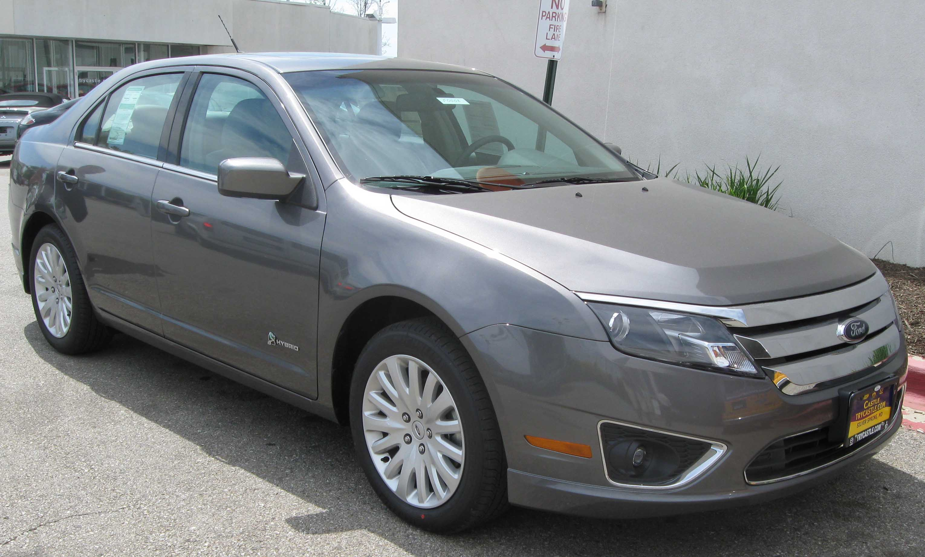 2010 Ford Fusion Hybrid photographed in Silver Spring, Maryland, USA.